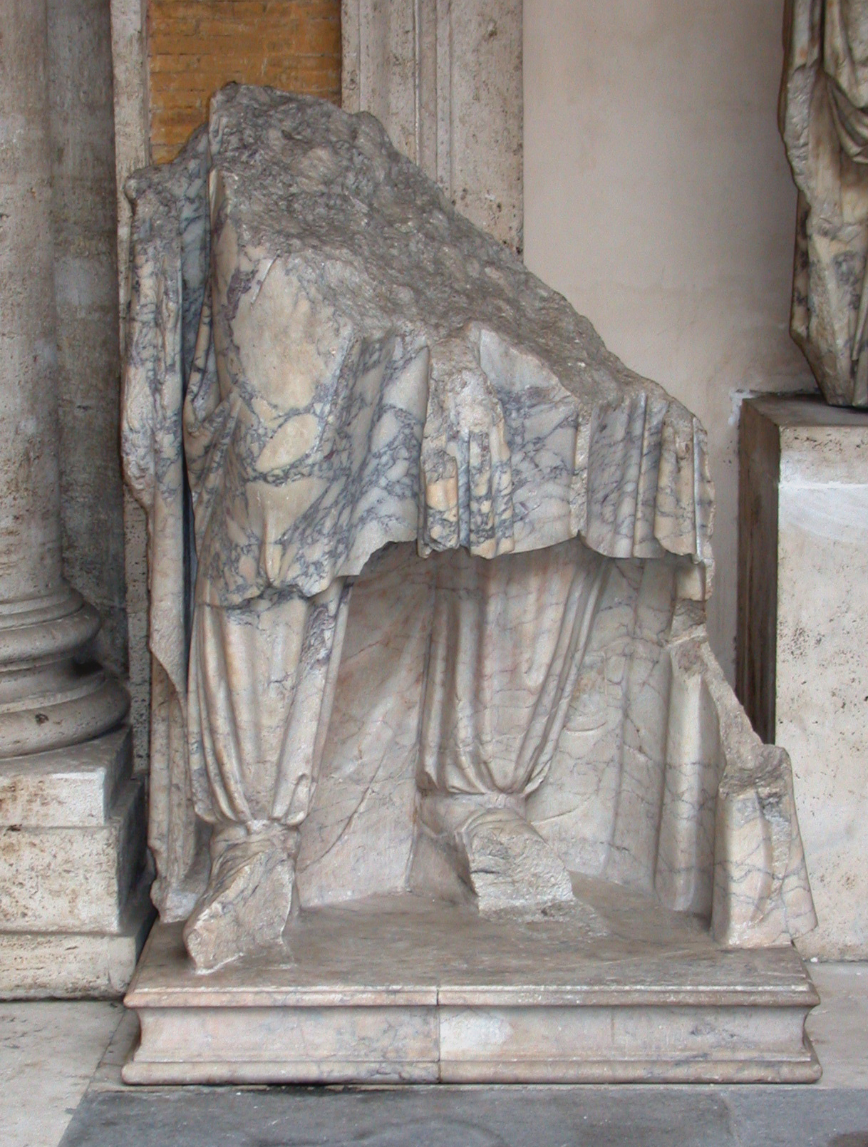 Statue of a Dacian in "pavonazzetto" (docimenum) marble (down part) in the court of Conservatori Palace in the Capitoline Museums. Taken on november 2005. This sculpture was on the Arch of Costantine, and it was taken away in the 18th century because it had been ruined and replaced by a copy in white marble. Before it was in the Forum of Trajan. Photo taken in November 2005.